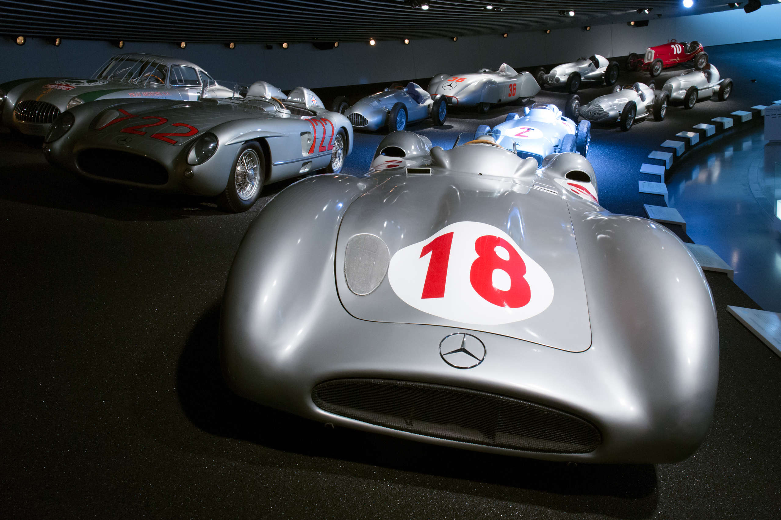 Mercedes-Benz W196R streamliner